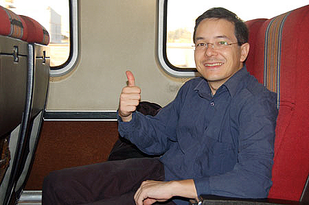 Australian author Shaun Tan at the 2007 World Fantasy Convention in New York.